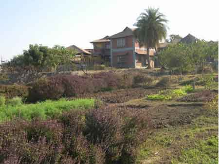 Herbal Gardens found at Sambhavna